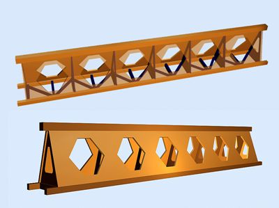 Honeycomb girder